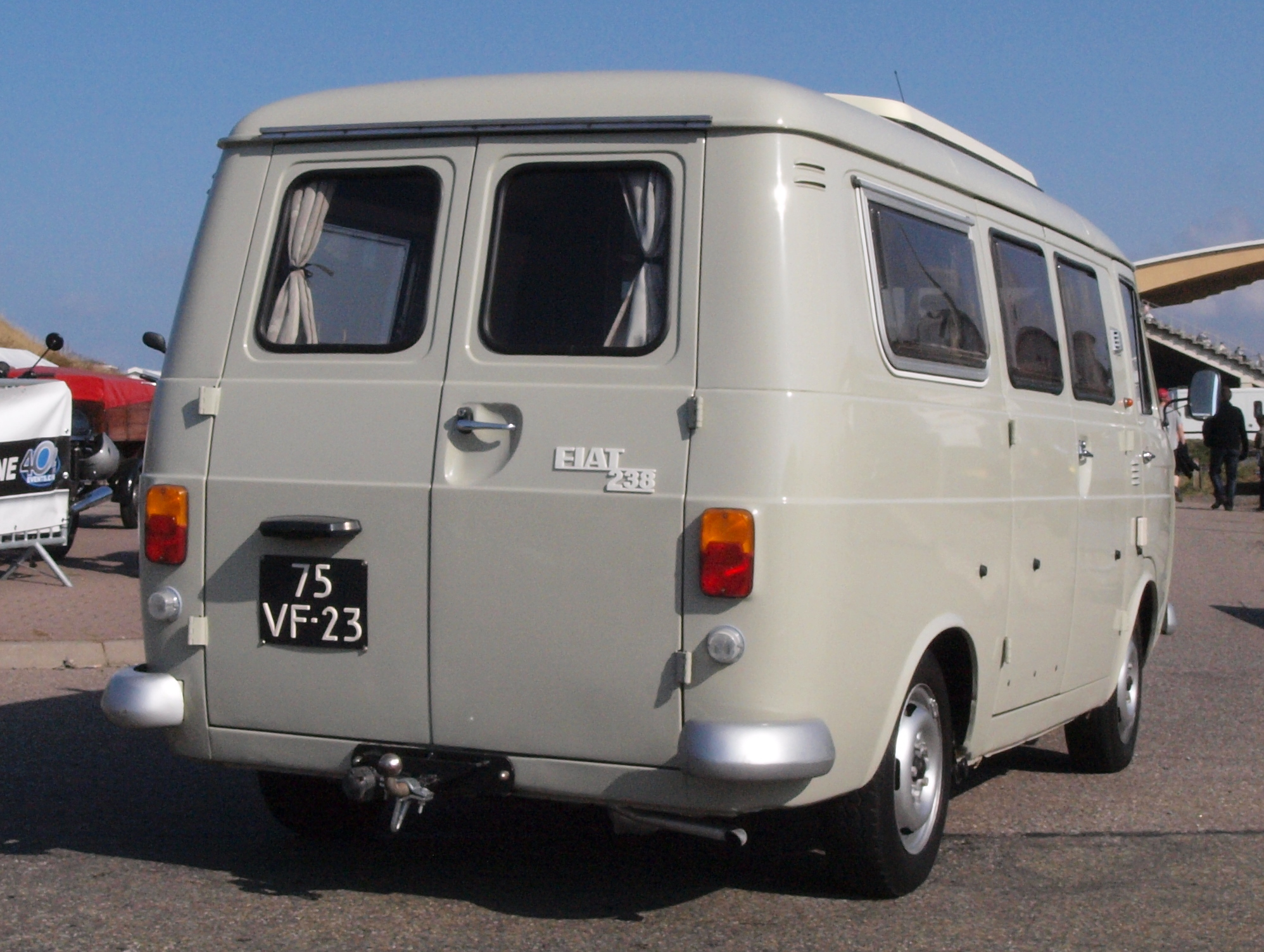 1977 Fiat 238 Photographed at the Nationaal Oldtimer Festival Zandvoort 2009, The Netherlands. OLYMPUS DIGITAL CAMERA